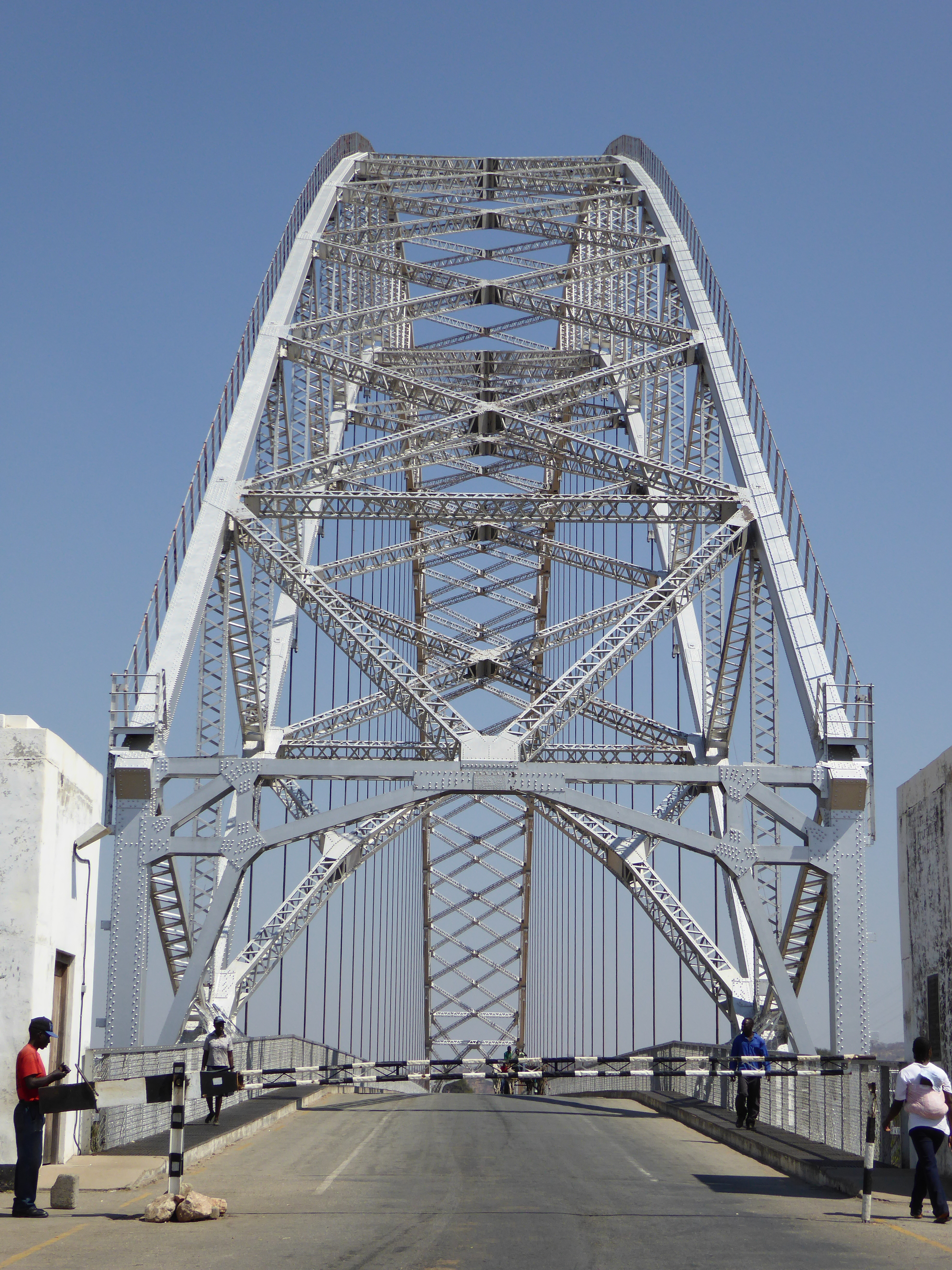 Proceeding towards Birchenough Bridge from the east.